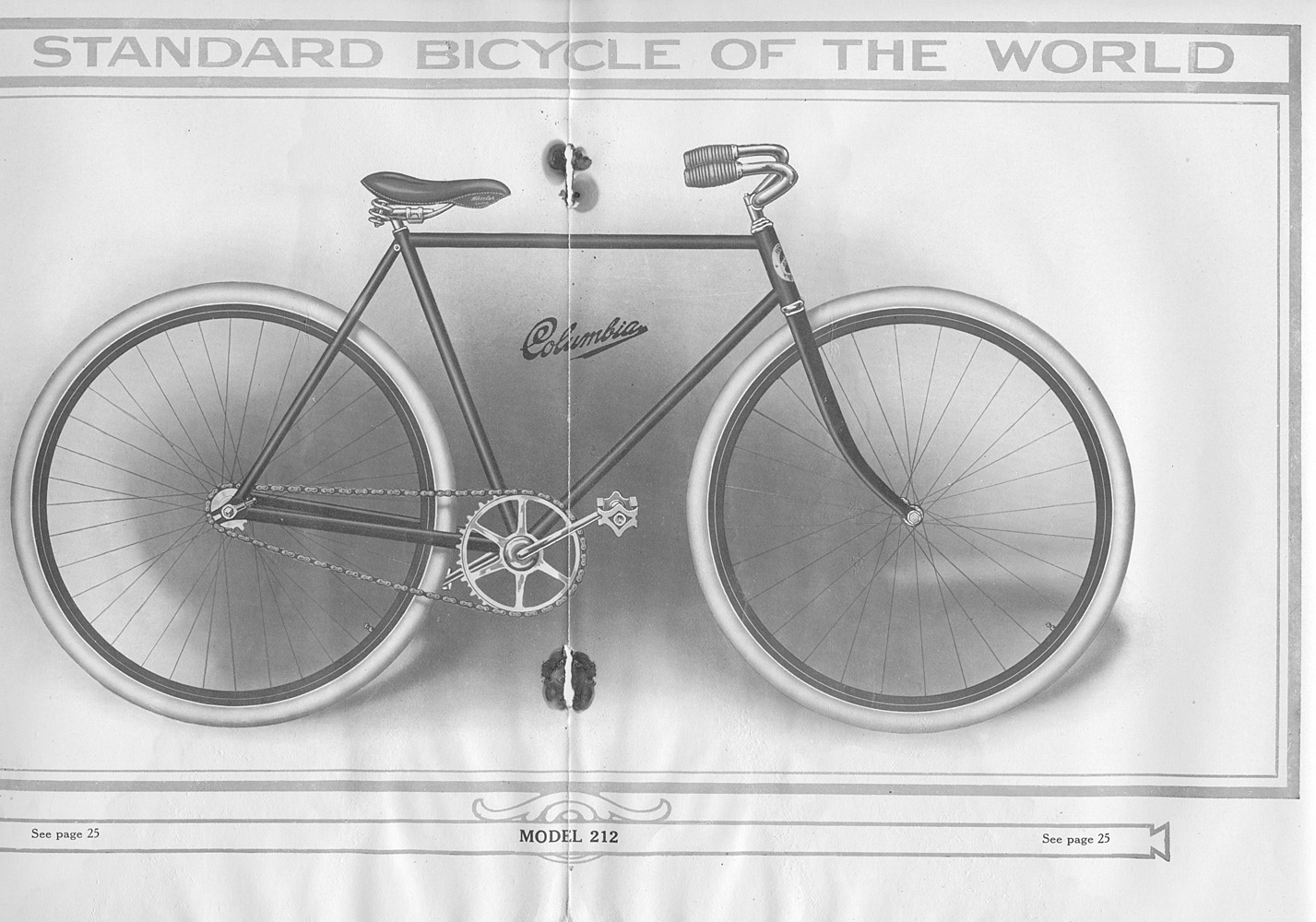 images of all pages of this catalog. Pope Manufacturing Co.